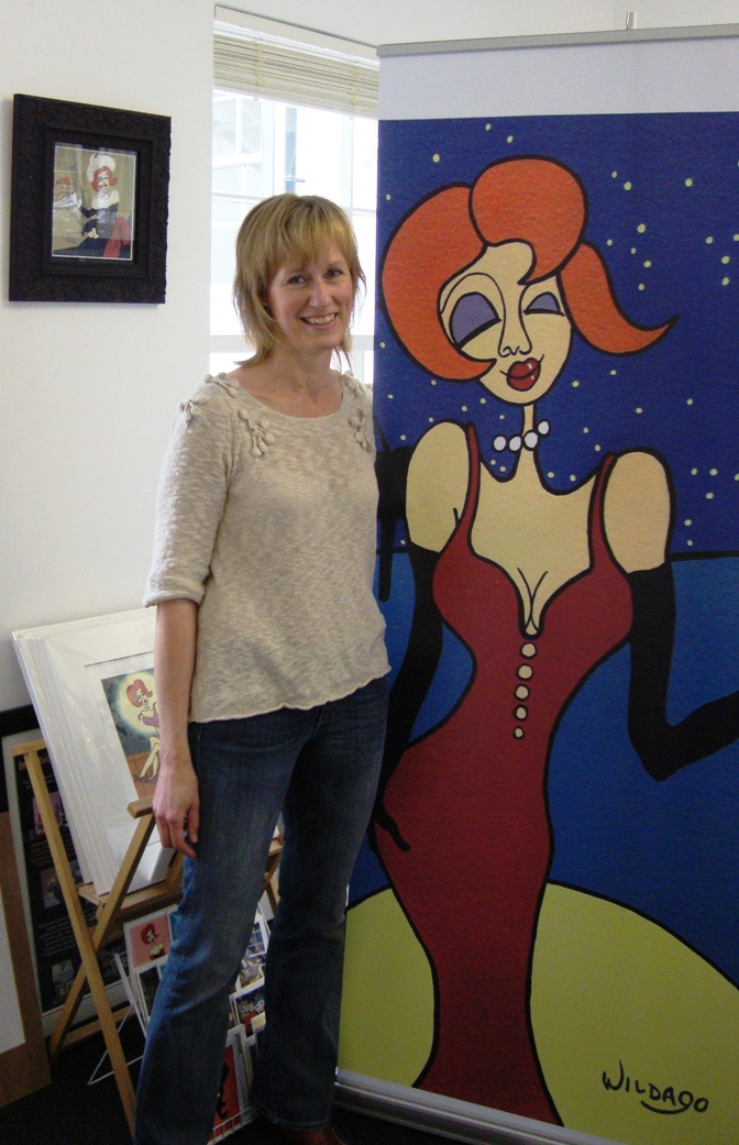 Wildago in her Bank Street Arts studio posing with a life-size banner of her fictional character Pearl, 2011 in Sheffield.